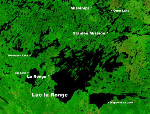 Portion of NASA map showing Lac la Ronge, Saskatchewan. (Captions have been added by Kayoty)